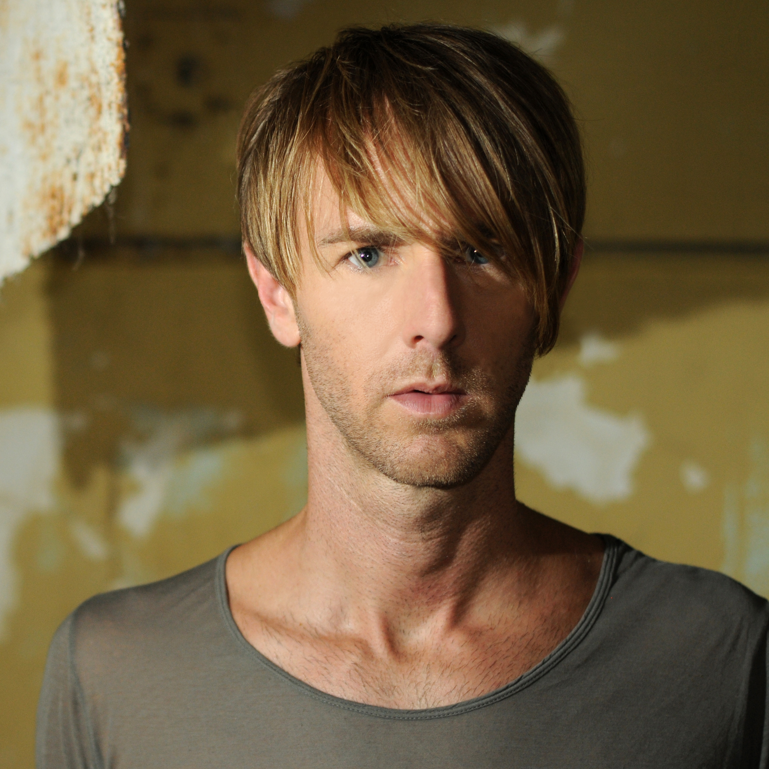 Richie Hawtin (press kit)